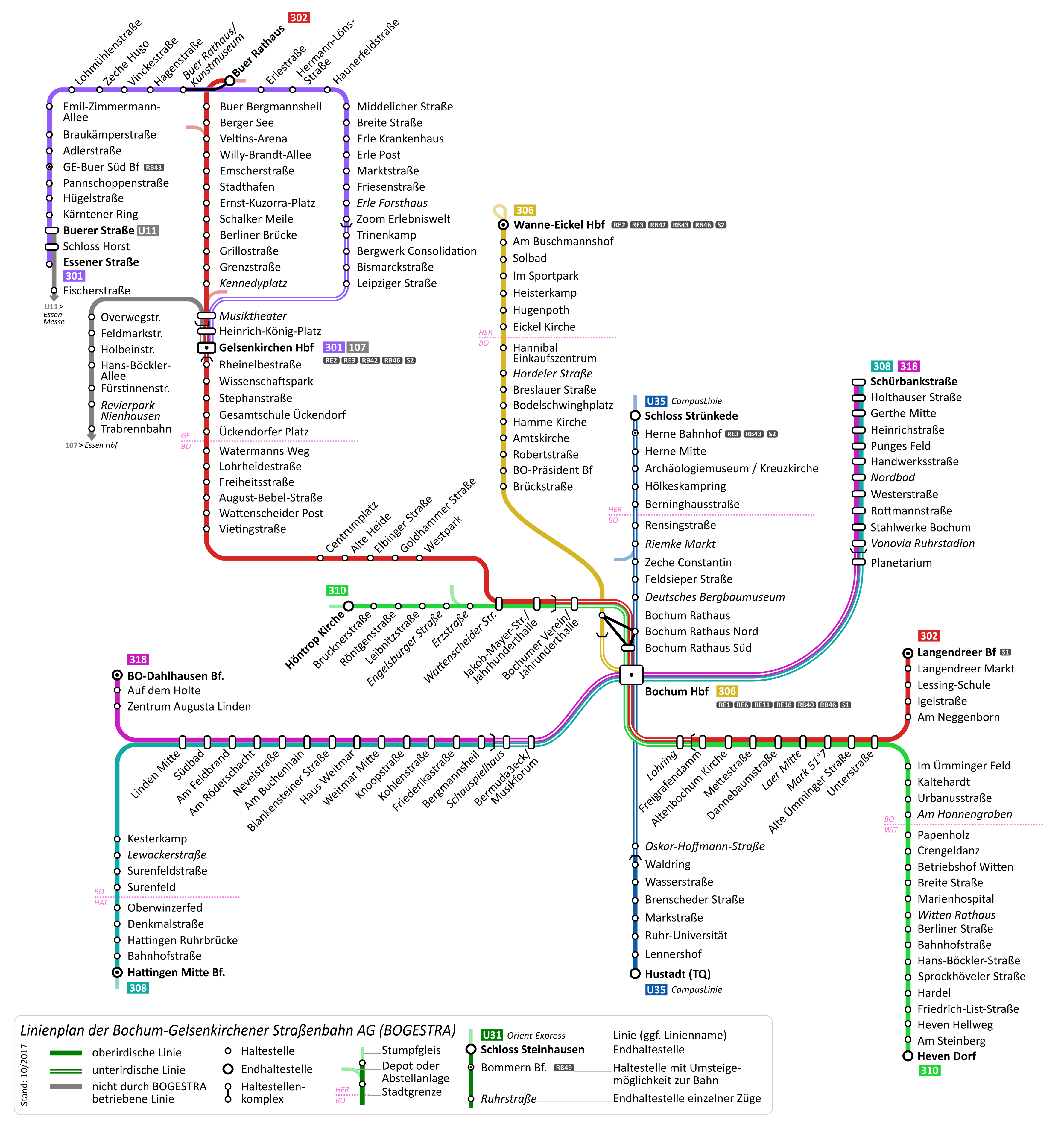 Map of Bogestra tram and light rail lines, October 2017 version